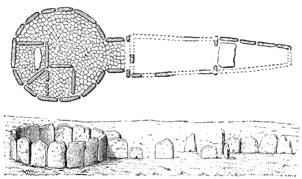 Burial place of Marcella Algarve